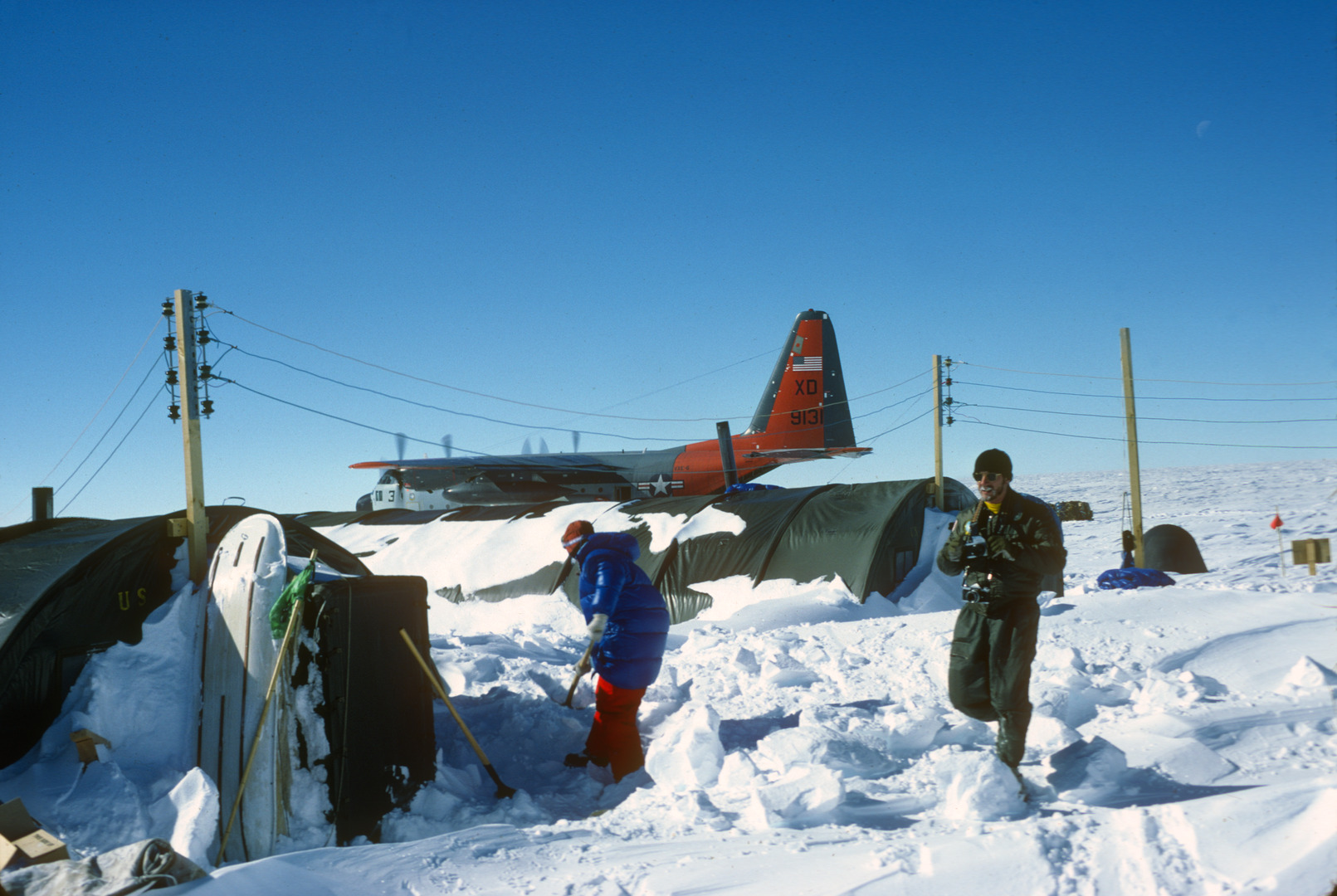 C130 and opening of Dome Charlie camp, 1977